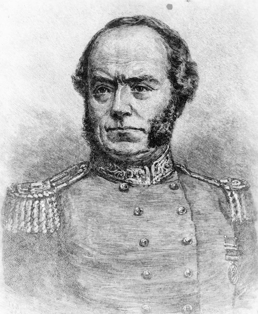 This is a sketch of Thomas Mitchell (1792-1855), explorer of Australia.